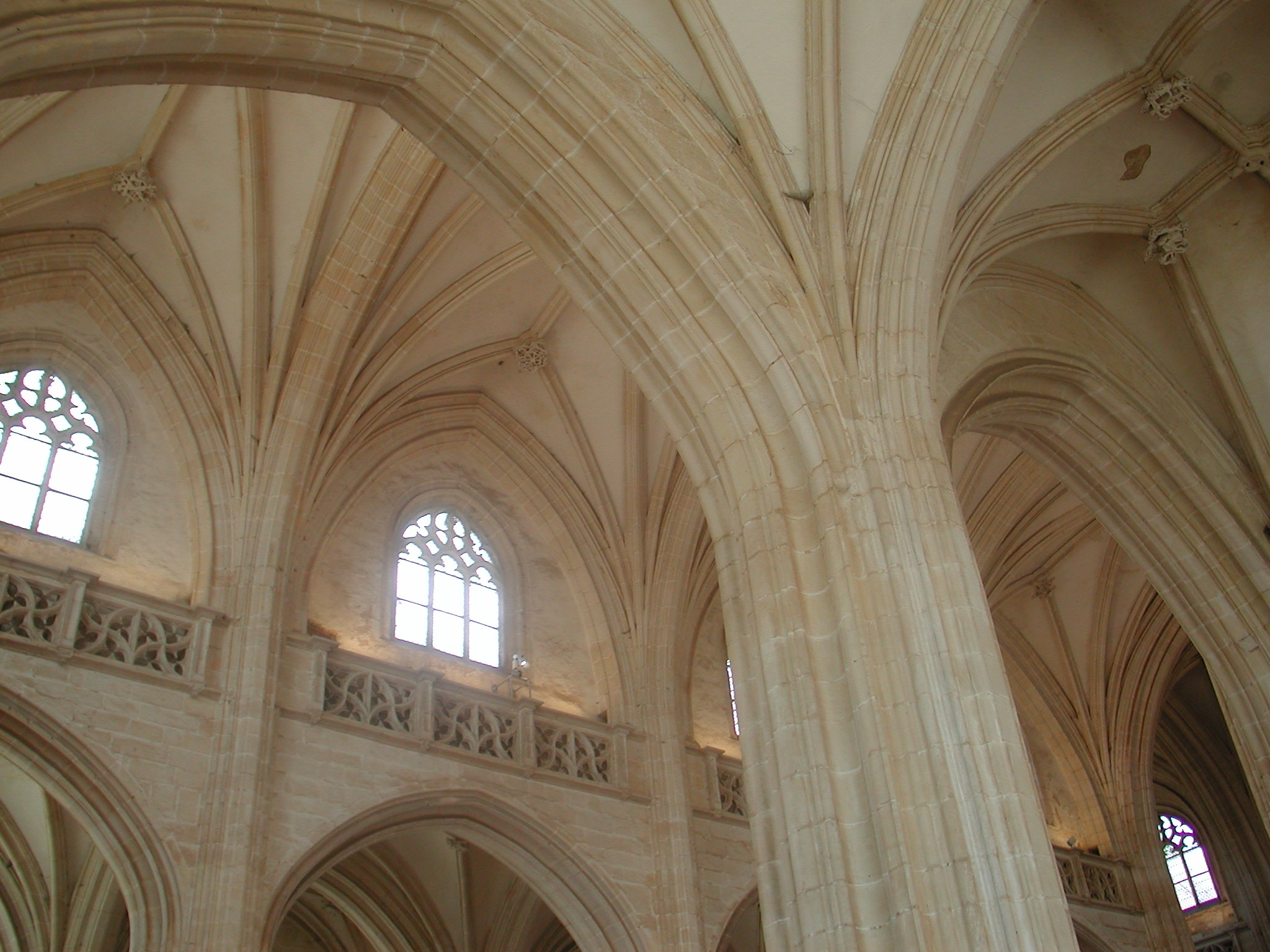 Vault and compound pier, church of Brou, Bourgogne